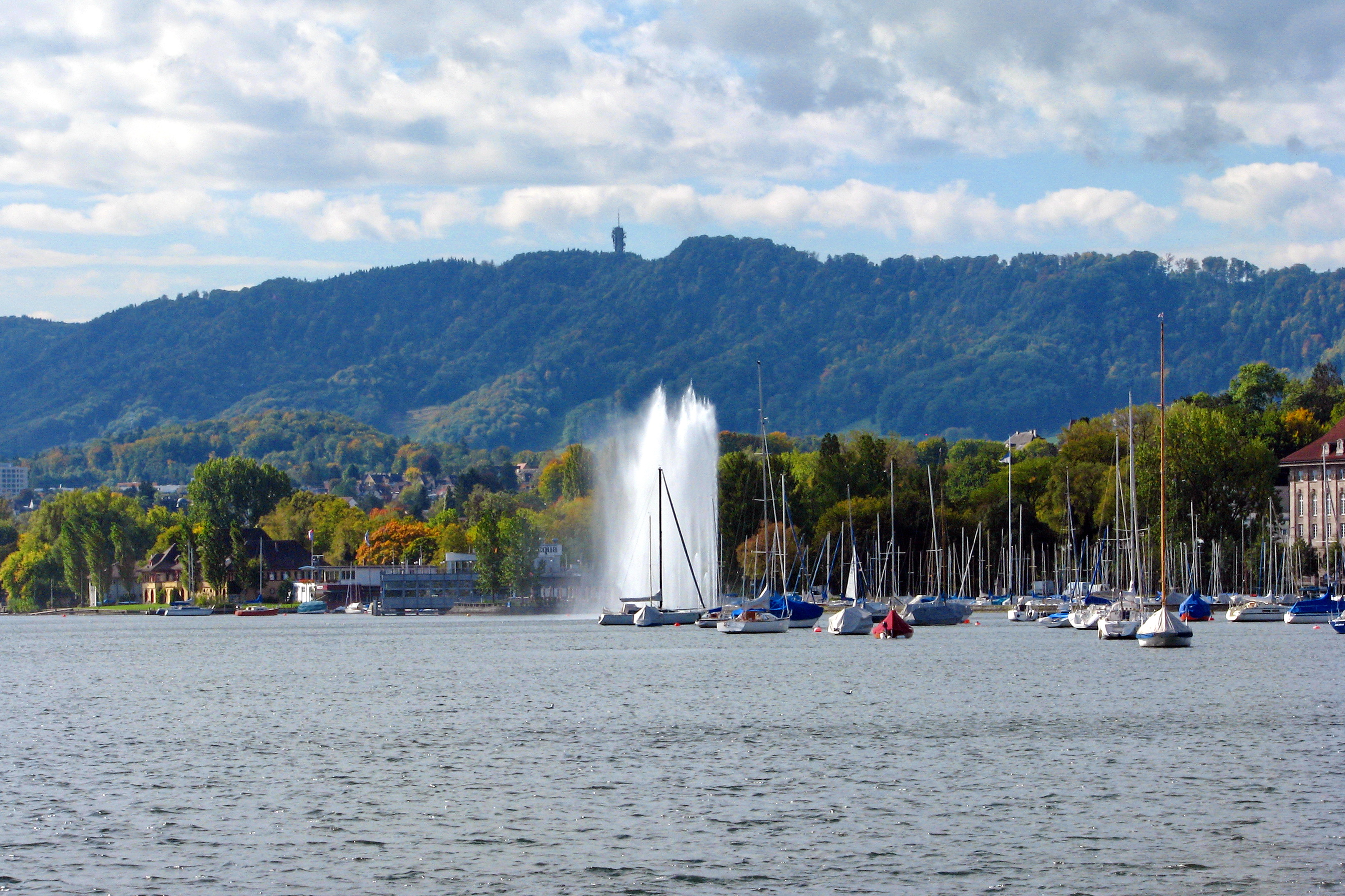 Zürich-Enge : Enge harbour, Zürichsee (Lake Zürich) fountain and Felsenegg-Girstel tower as seen from Lake Zürich.